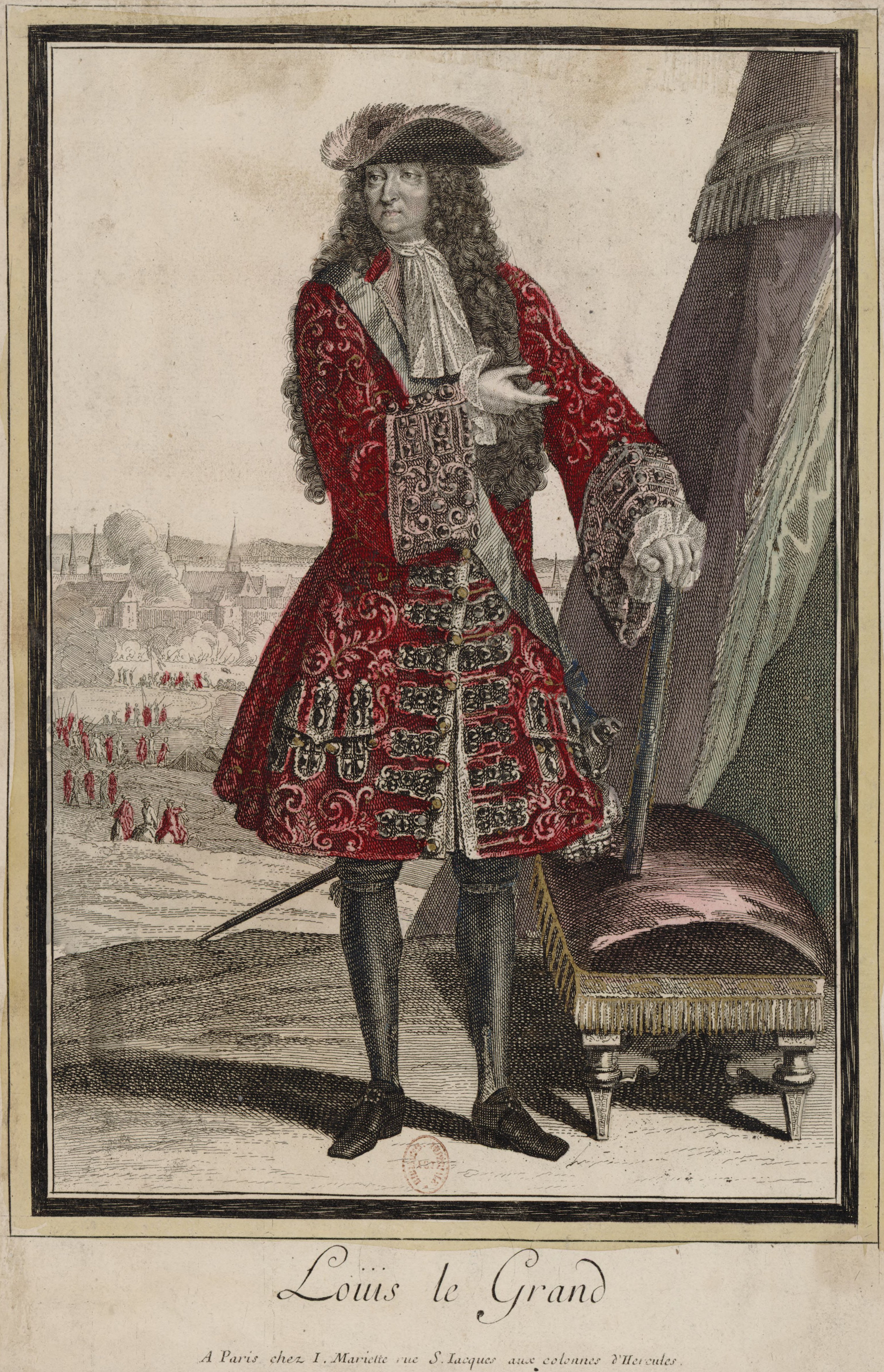 Engraved Portrait of Louis XIV of France